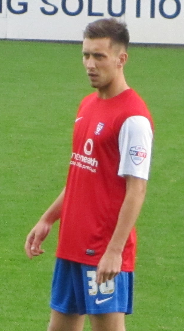 Luke O'Neill playing for York City against Fleetwood Town at Bootham Crescent, York on 26 October 2013